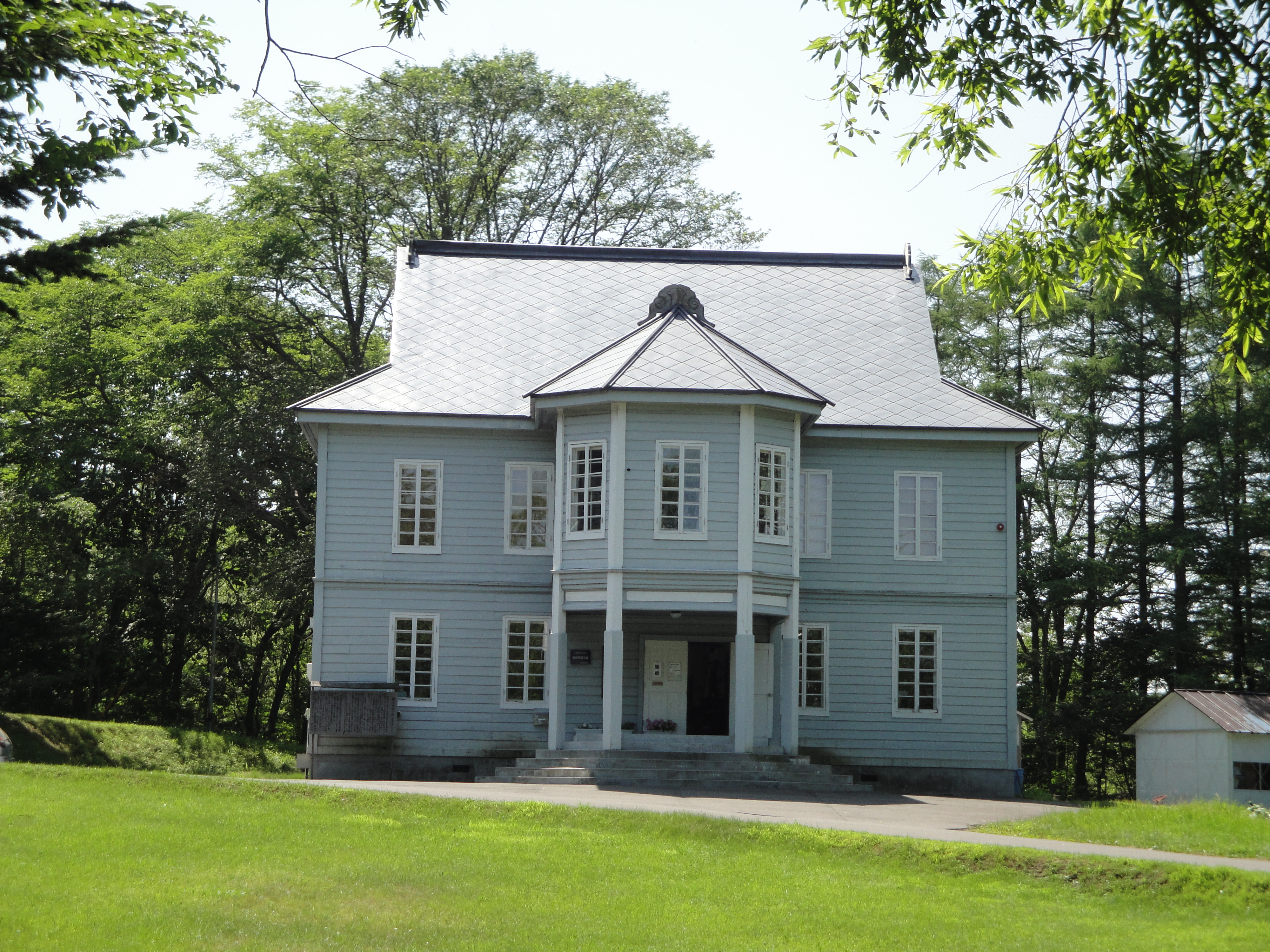 Shibecha Kyodokan